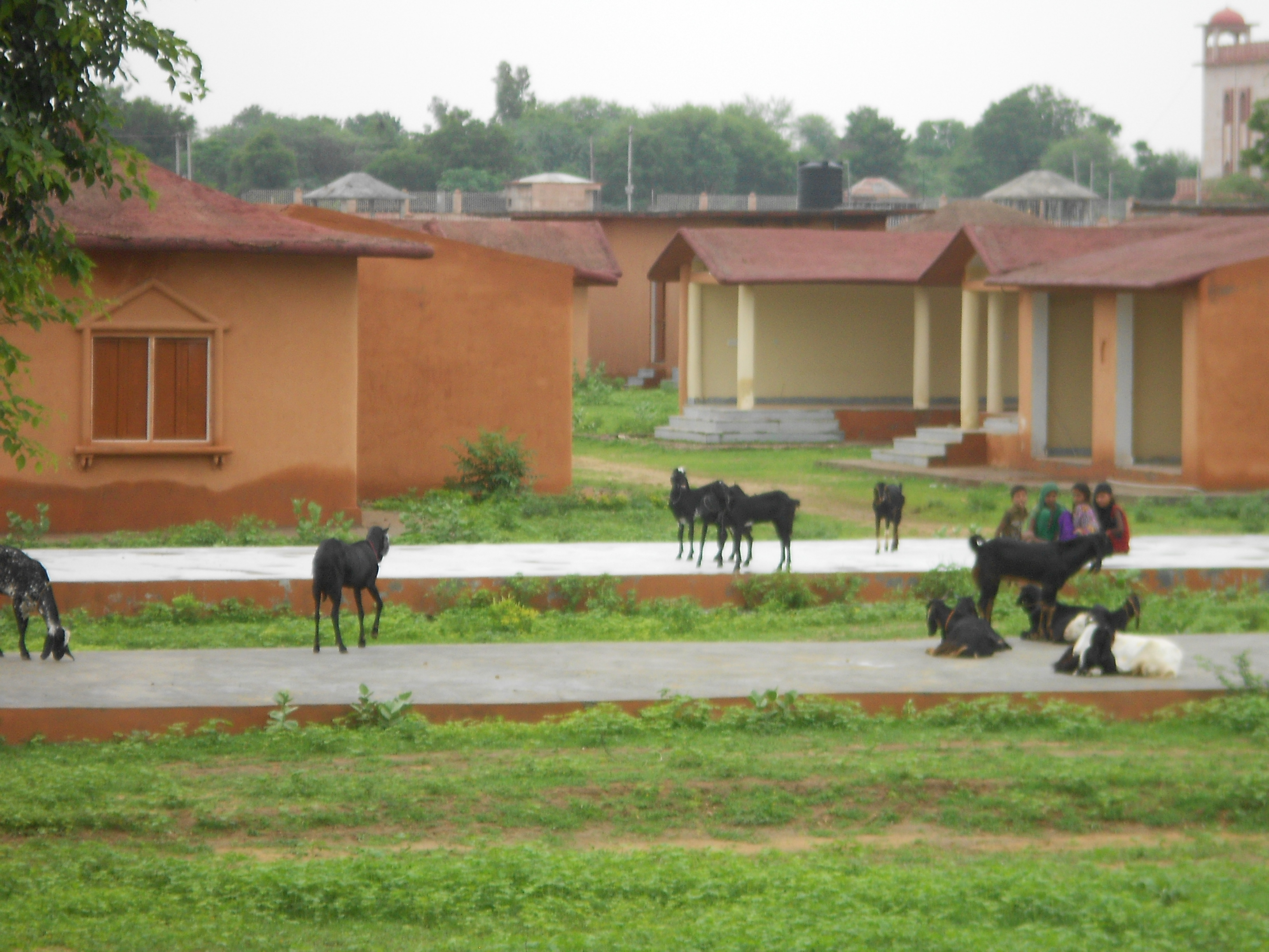 Shilpgram at Ranthambore National Park, Sawai Madhopur